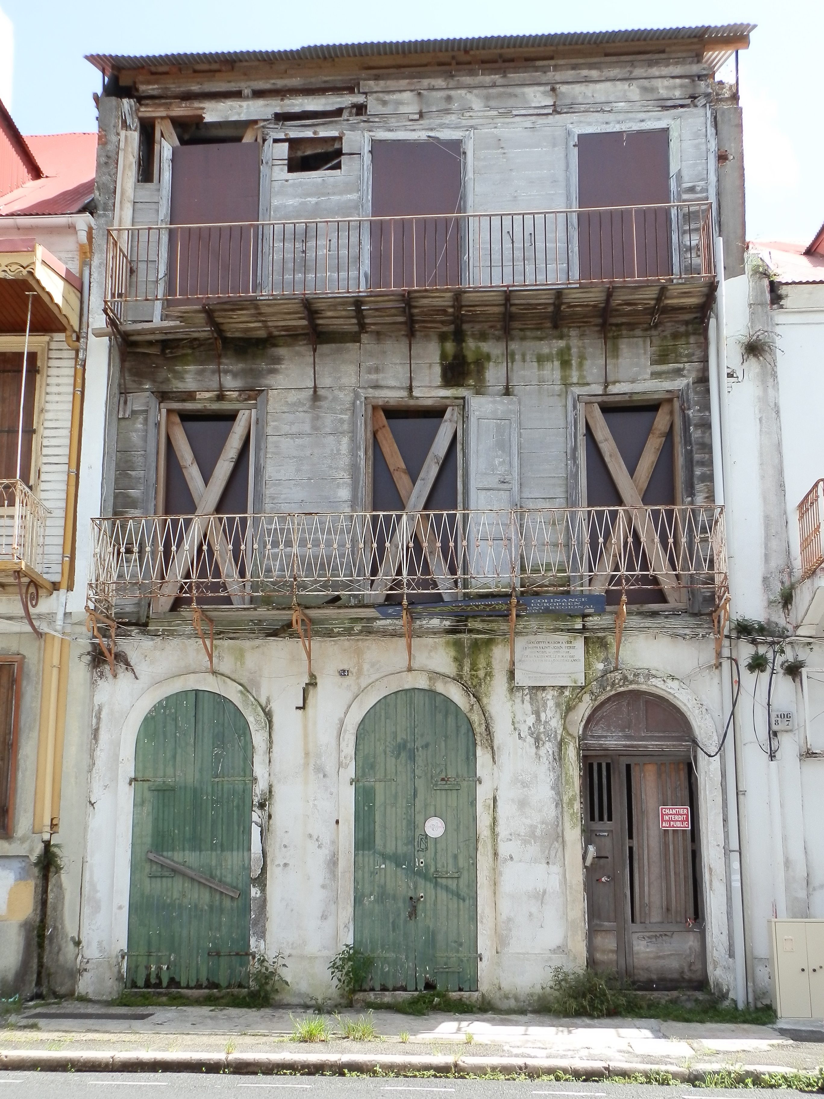 Native house of Saint-John Perse, 54 rue Achille René Boisneuf, Pointe-à-Pitre, Guadeloupe, France